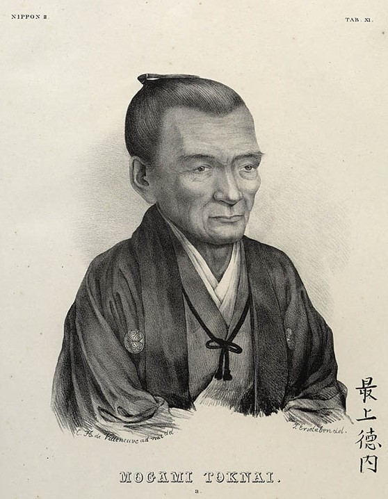 Picture of Mogami Tokunai (1755-1836) in Siebold's "Nippon" (1832-1858)